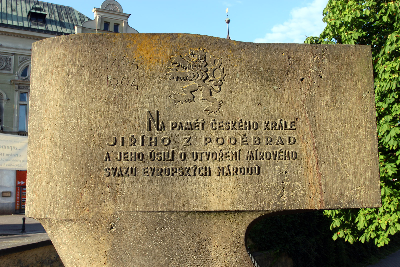 Stella with information about Jiri z Podebrad international cooperation